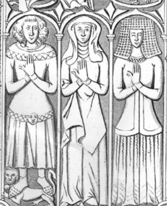 "Tombstone depicting the Danish Knight Henning Moltke, his wife Lady Elsebe and Fikke Moltke’s wife Lady Christine. Tombstone, c.1370. Presumably Scandinavian. Keldby church, Møn, Denmark." Drawing by Nicolai Abildgaard ca. 1780 − (Description from page 12 in the article "1300-tallets krusede hovedduge" by Camilla Luise Dahl)